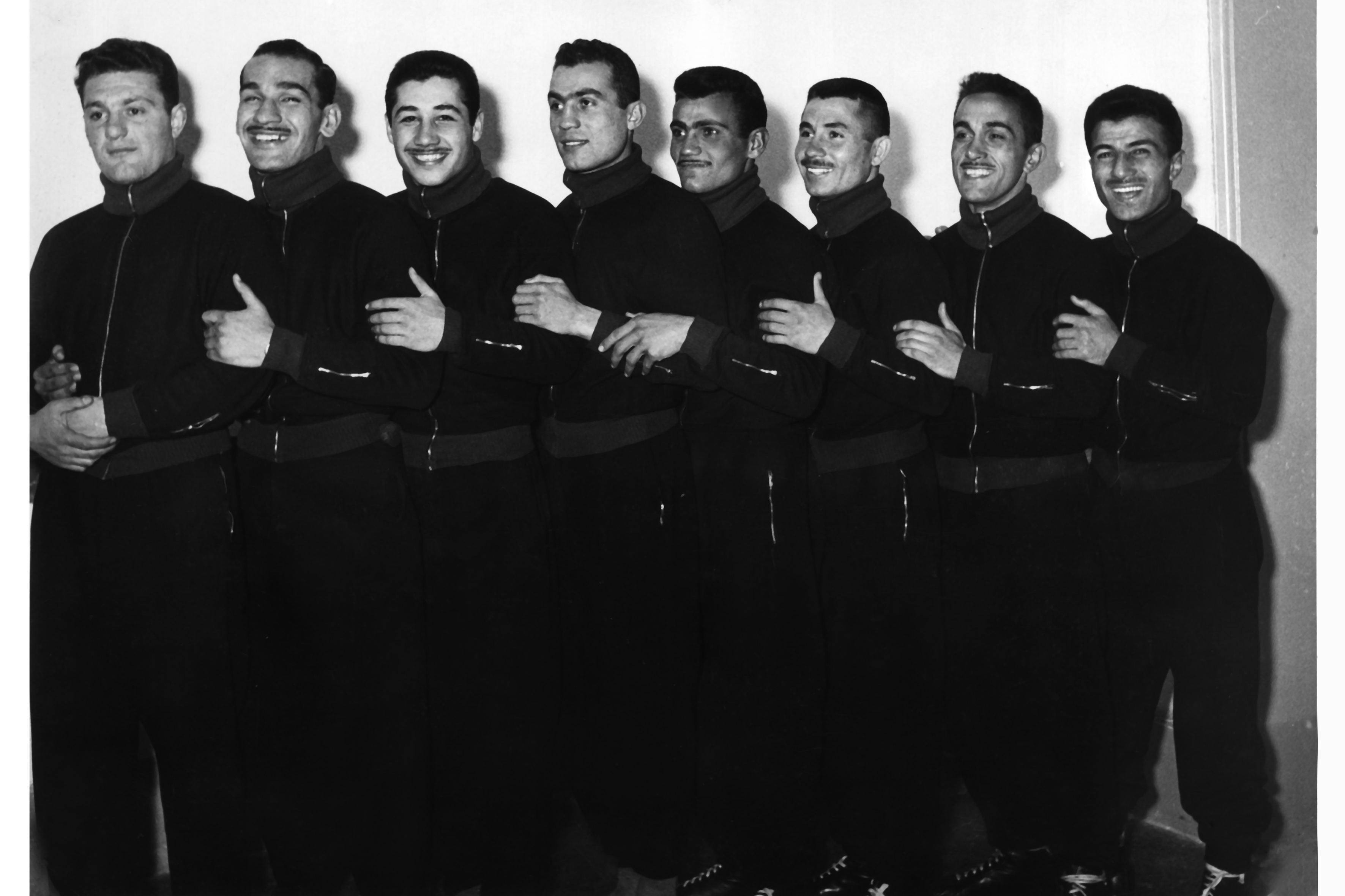 تیم ملی بوکس ایران انتخاب شده جهت شرکت درسومین دوره بازیهای آسیایی توکیو